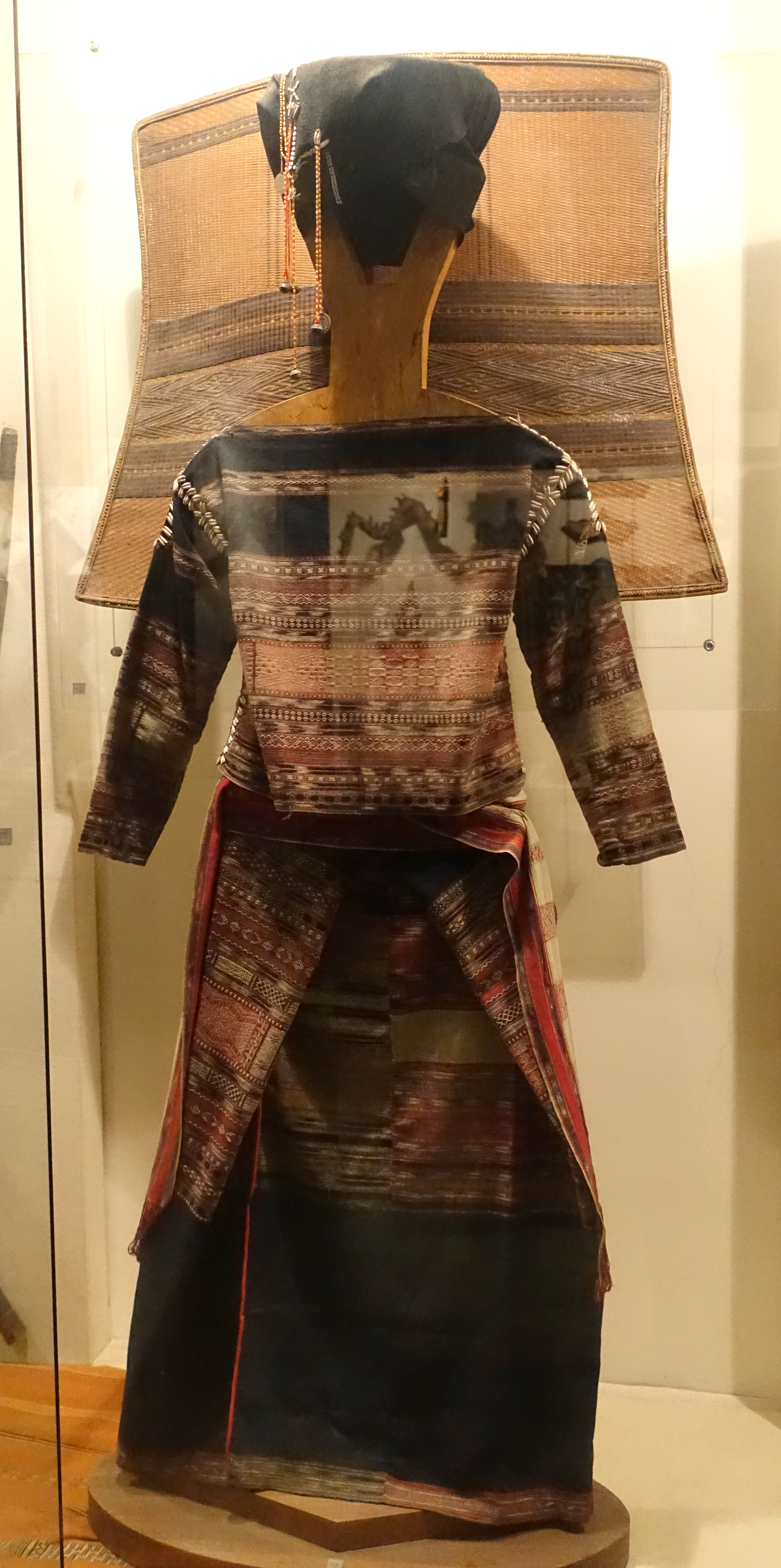 Exhibit in the Vietnam National Museum of Fine Arts - Hanoi, Vietnam. This artwork is old enough so that it is in the public domain.